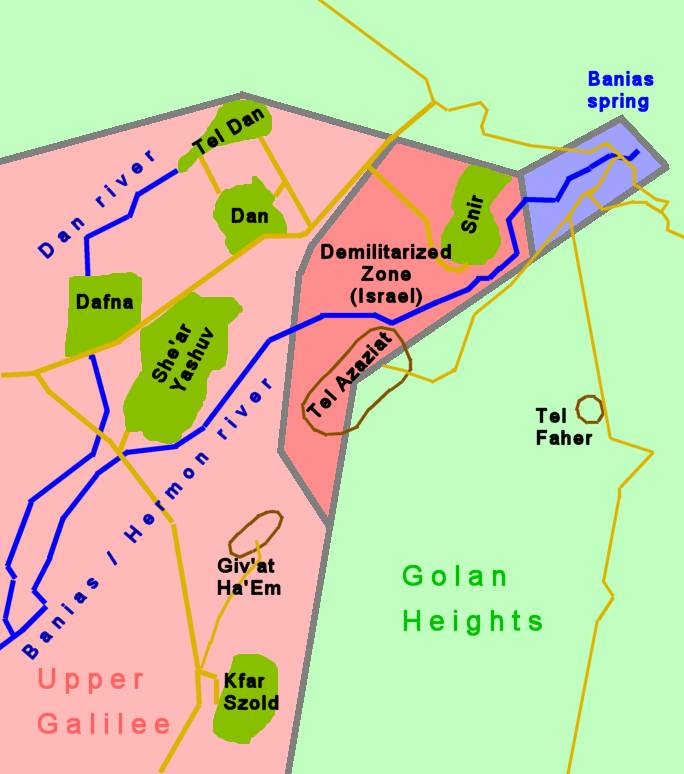 Map of the former Demilitarized Zone (DMZ) of Snir - Tel Azaziat and surroundings, Upper Galilee, Israel